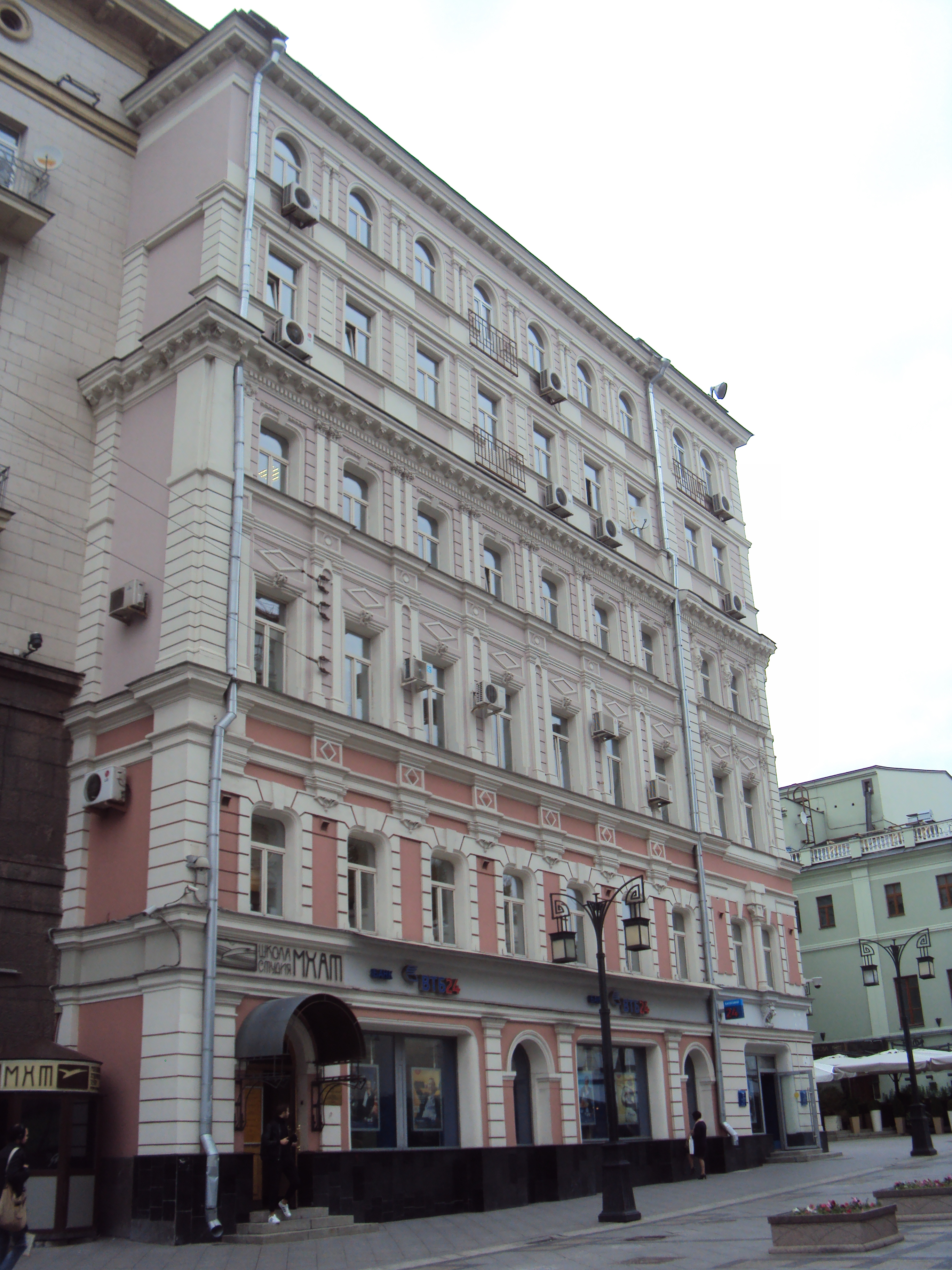 School-Studio named VL.And. Nemirovich-Danchenko